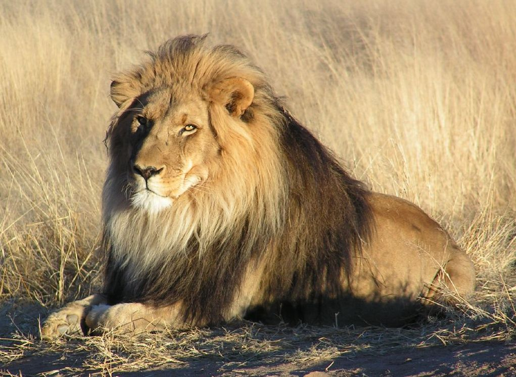 Lion (Panthera leo) lying down in Namibia. Photographer's comment: "[I was] standing on a viewing platform about 25m away. He wasn't doing much at all other than looking regal. There where [sic] some lionesses down below growling and pacing but they were in the shade so I didn't get very good pictures of them. [...] They were from Okinjima AfriCat foundation who look after injured or orphaned cats until they can be returned to the wild. They also educate farmers on practices on how to raise stock with large cats."